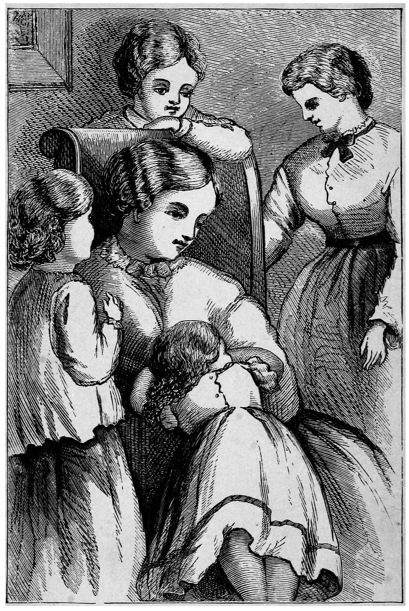 Frontispiece from scan of book Little Women (1869), written by L. M. Alcott and illustrated by May Alcott